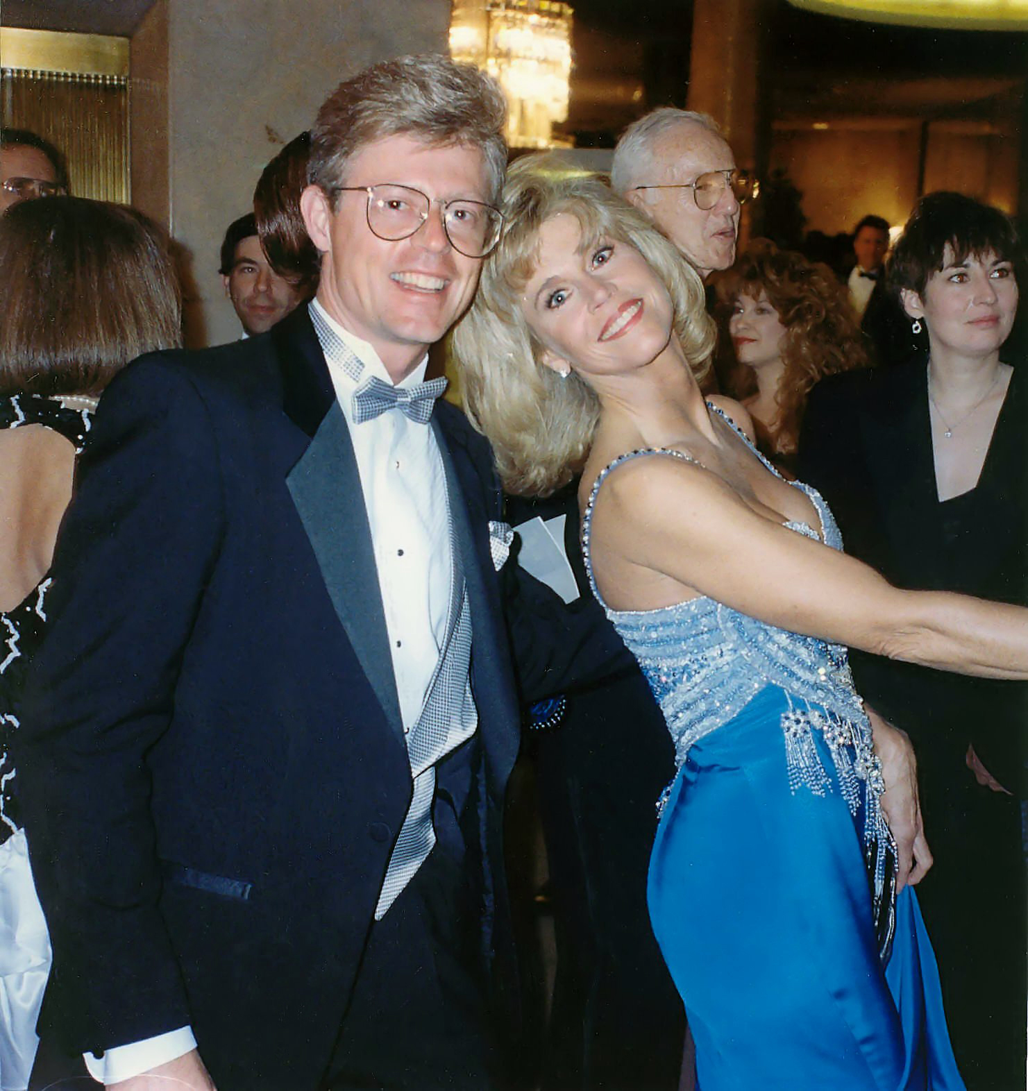 Jane Fonda in the lobby of the theater immediately after the conclusion of the telecast of the 62nd Academy Awards (Jane is holding Ted Turner's arm)